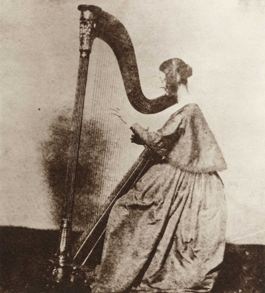 Miss Horatia Feilding, half sister of W. H. F. Talbot. A so called "Calotype", a kind of early photograph.